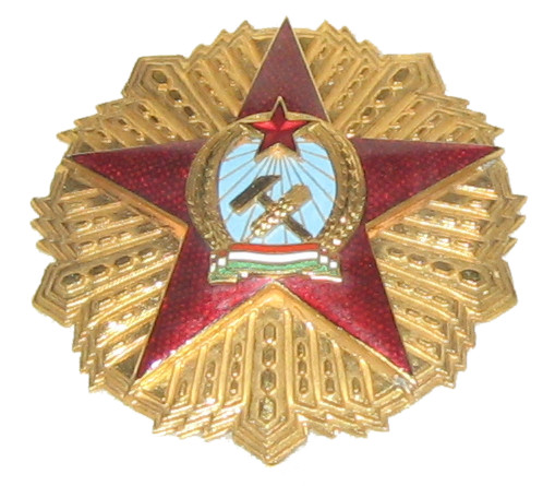 Star of the Order of Merit of People's Republic of Hungary.